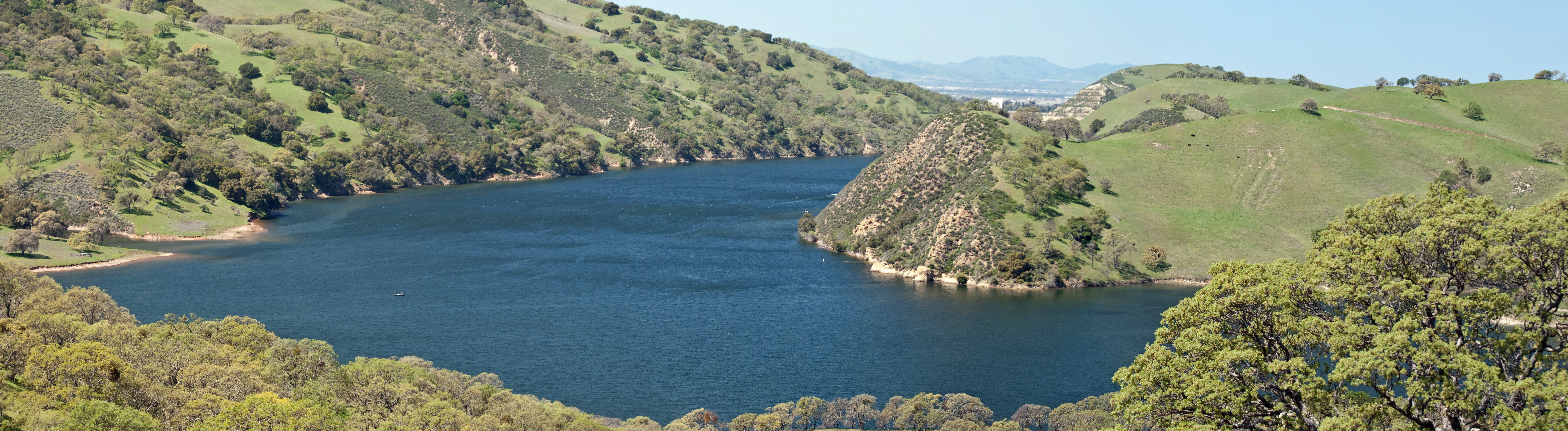 Lake Del Valle reservoir, within Del Valle Regional Park in the Diablo Range, Alameda County, San Francisco Bay Area, California. A part of the California State Water Project system infrastructure.